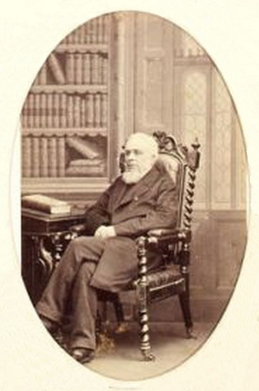 Portrait of Charles Barnard (1804-1871), engineer and iron founder